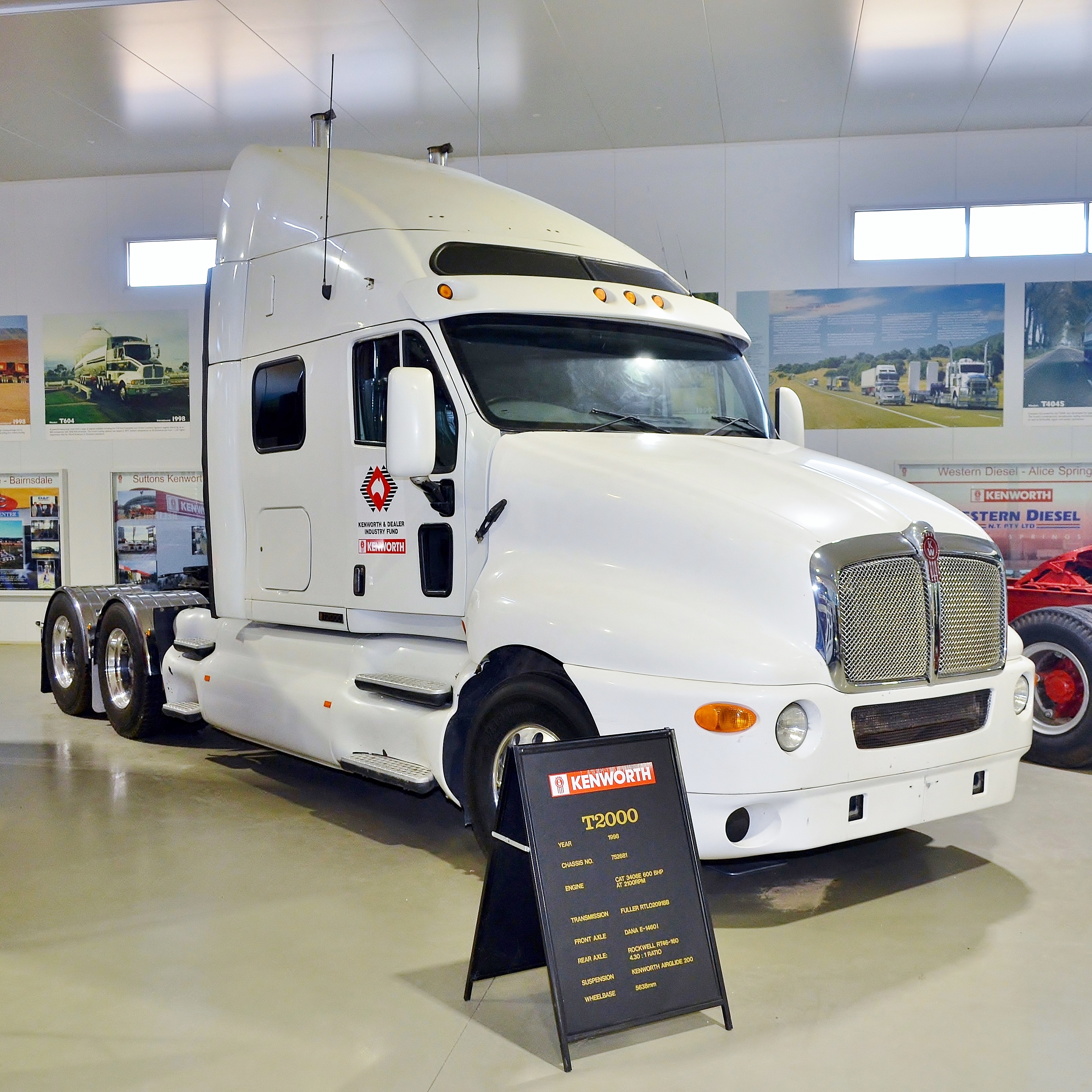 A Kenworth T2000 semi-trailer tractor, on display at the Kenworth Dealer Hall of Fame, which is part of the National Road Transport Hall of Fame, Alice Springs, NT, Australia.